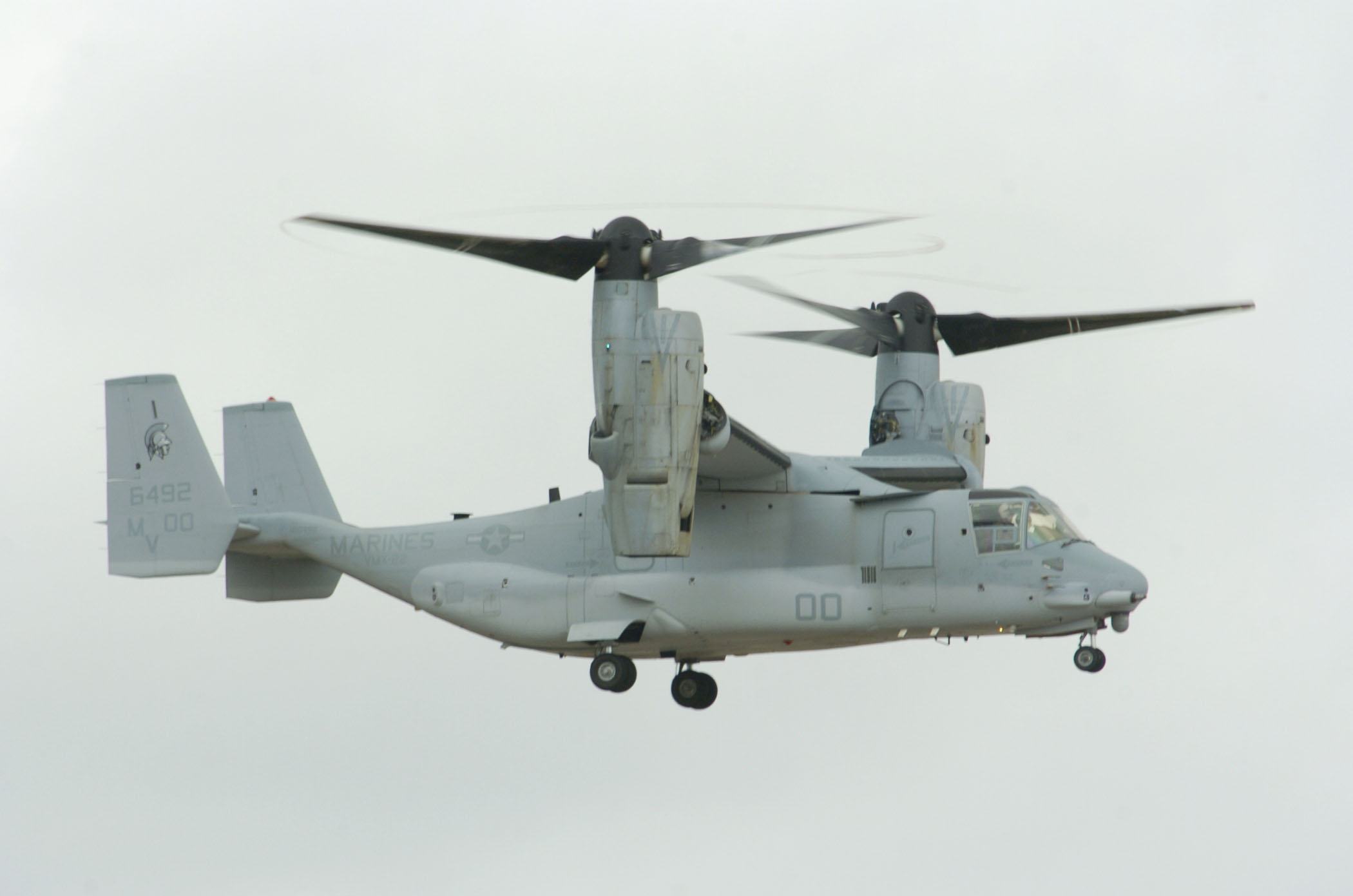 Miramar, California (Oct. 16, 2006) - A U.S. Marine Corps MV-22B Osprey, assigned to Marine Tiltrotor Operational Test and Evaluation Squadron Twenty-two (VMX-22) launches vertically during the Miramar Air Show. The Miramar Air Show is celebrating its 50th Anniversary and is part of the San Diego Fleet Week, a month long celebration of southern California’s Navy and Marine Corps personnel. U.S. Navy photo by Mass Communication Specialist Airman Jonathan David Chandler (RELEASED)